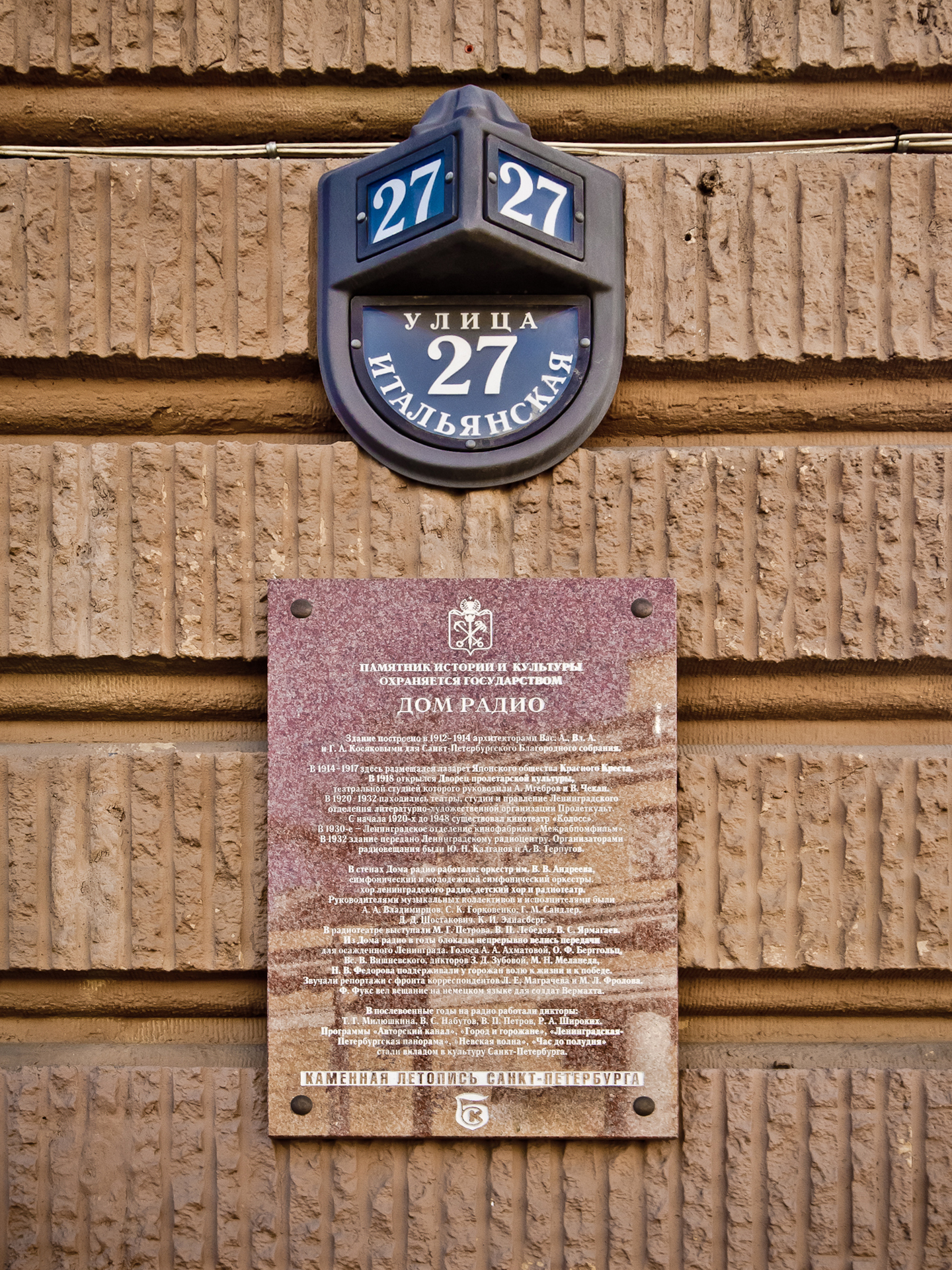 Leningradskiy Dom Radio in Saint Petersburg, Russia. The house was built in 1912-14, and has been the residence of Radio Petersburg (formerly Leningrad) since 1933. This image shows a memorial plaque on the facade.